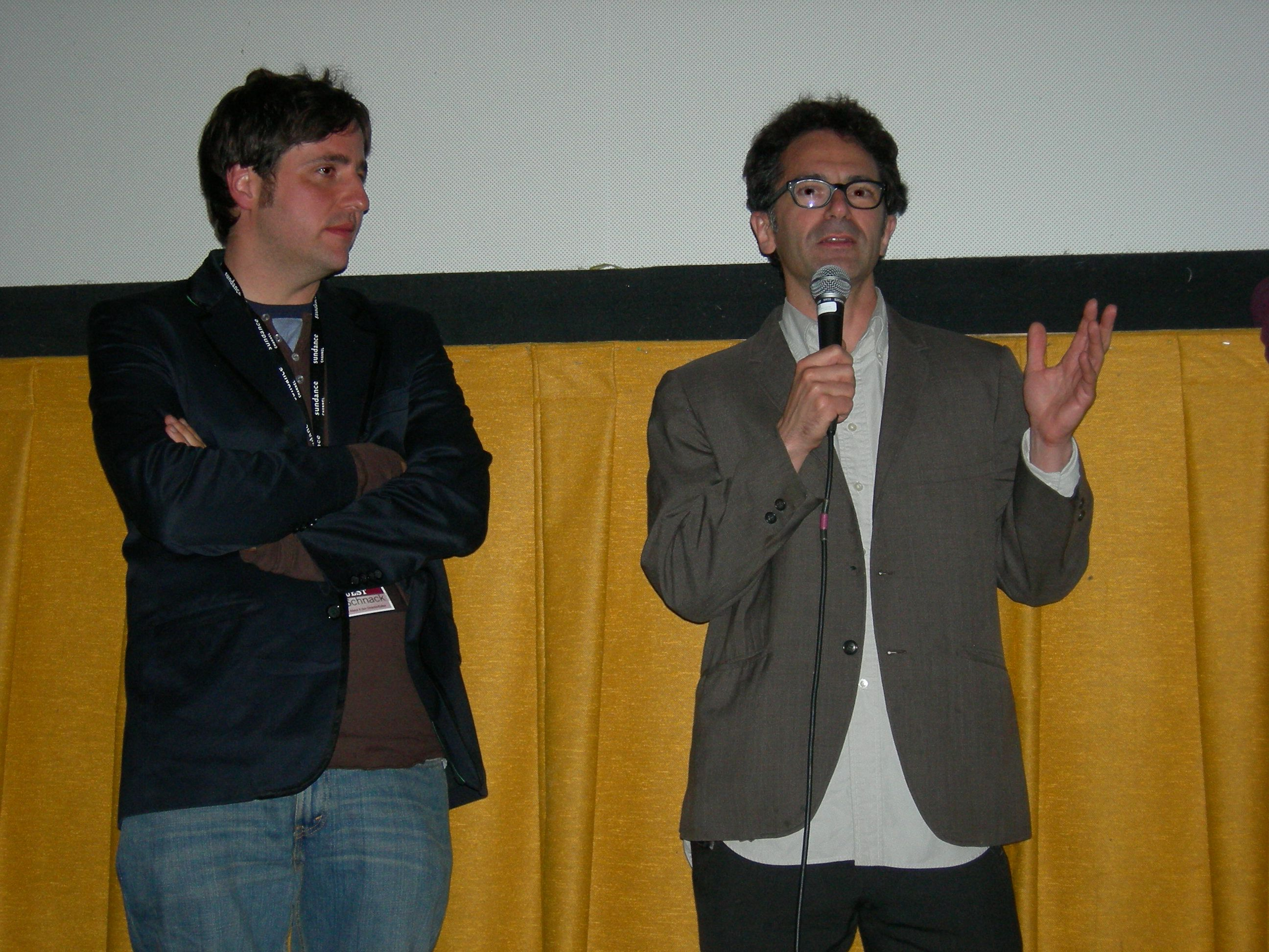 L-to-R: Film director AJ Schnack and author/journalist Michael Azerrad at the Neptune Theater during the 2007 Seattle International Film Festival, after showing their film Kurt Cobain: About a Son.